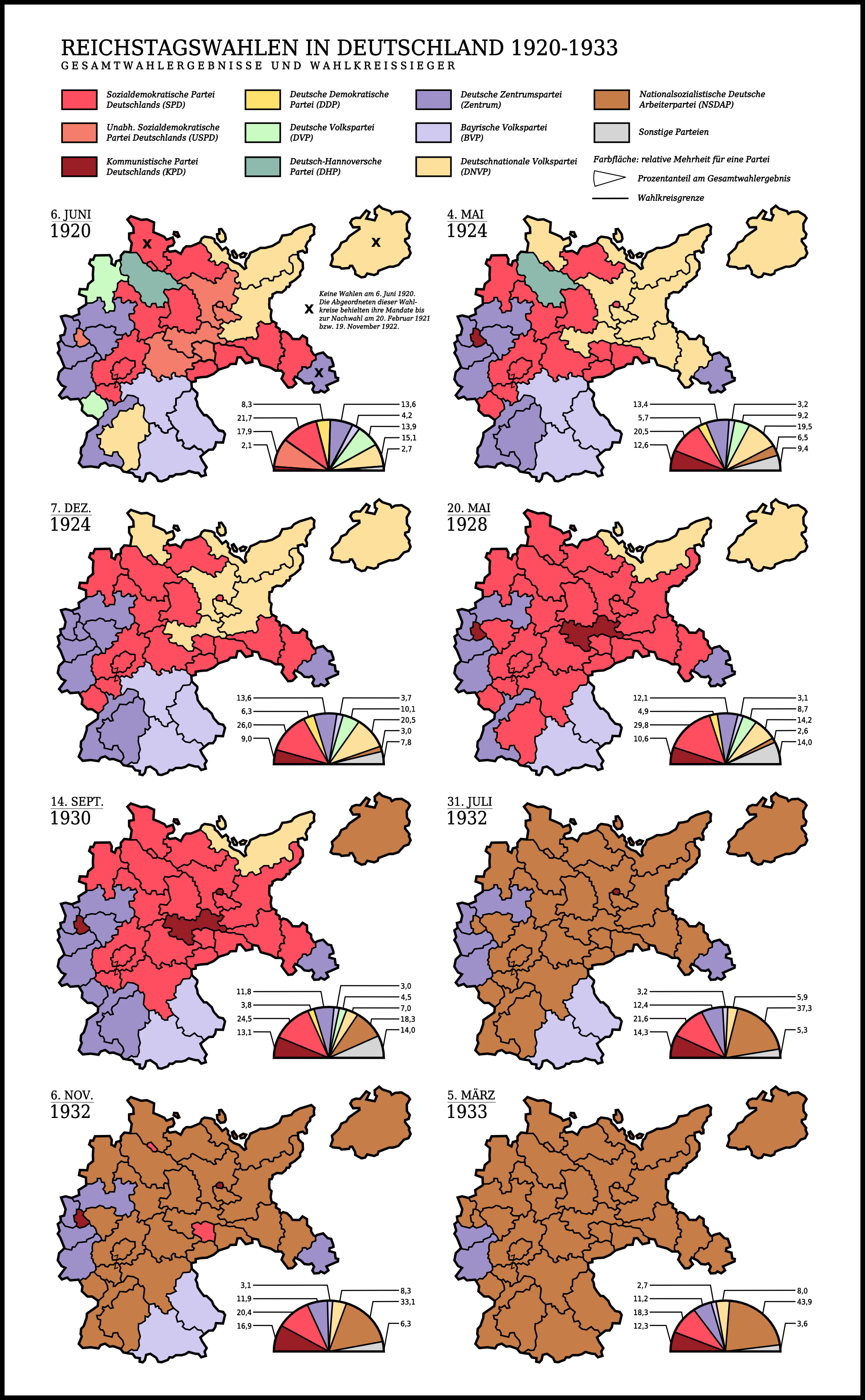 German parlamentary elections from 1920 to 1933 (Weimar Republic). Overall share and constituency winners. red: Social Democratic Party of Germany (SPD, center-left) light red: Independent Social Democratic Party of Germany (USPD, far-left branch of SPD, later merged into KPD and SPD) dark red: Communist Party of Germany (KPD, communist) yellow: German Democratic Party (DDP, left-wing liberal, no constituencies won) light green: German People's Party (DVP, right-wing liberal, far-right since 1929) dark green: German-Hanoverian Party (DHP, conservative regionalist) purple: Centre Party (Z, conservative catholic regionalist) light purple: Bavarian People's Party (DVP, regional Bavarian branch of Centre party, far-right) light brown: German National People's Party (DNVP, far-right) brown: National Socialist German Workers' Party (NSDAP, Nazi) gray: other (no constituencies won) Constituency names given on this map.